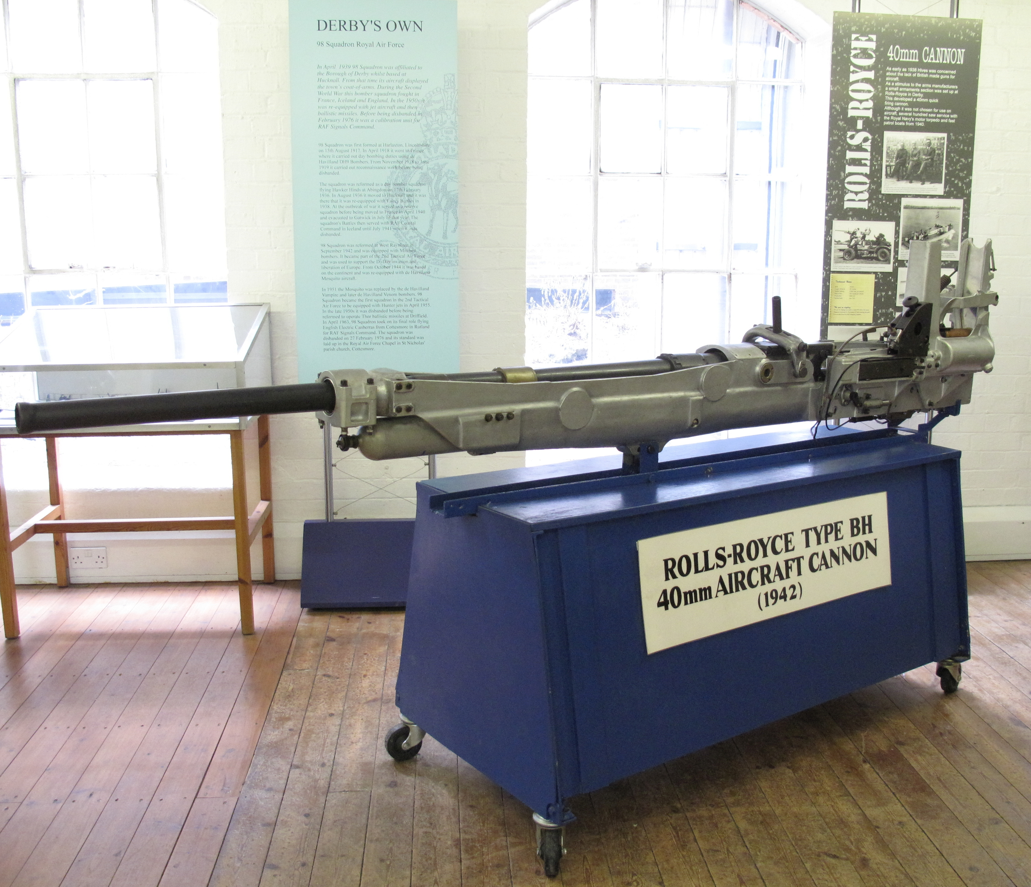 Rolls-Royce type BH 40mm Aircraft Cannon (1942) on display at the Silk Mill Museum, Derby, in 2010. May not now be on display. From the display captions: "As early as 1938 Hives [Ernest Hives, General Works Manager and a director of Rolls-Royce] was concerned about the lack of British made guns for aircraft. As a stimulus to the arms manufacturers a small armaments section was set up at Rolls-Royce in Derby. This developed a 40mm quick firing cannon." "Intended for tank busting aircraft such as the Hurricane IID, a small number were fitted to these aircraft in 1942, but never saw action due to a change in tactics and the development of rockets." "After the fall of France the Admiralty expressed an interest in using the gun on their motor boats. Over 600 naval versions of the cannon were built at the British United Shoe Machinery Company in Leicester." "The gun on display is a Mk II, model BH with a 12 round magazine intended for Hurricane IID tank busting aircraft. It is on display from the RAF Museum, Hendon."